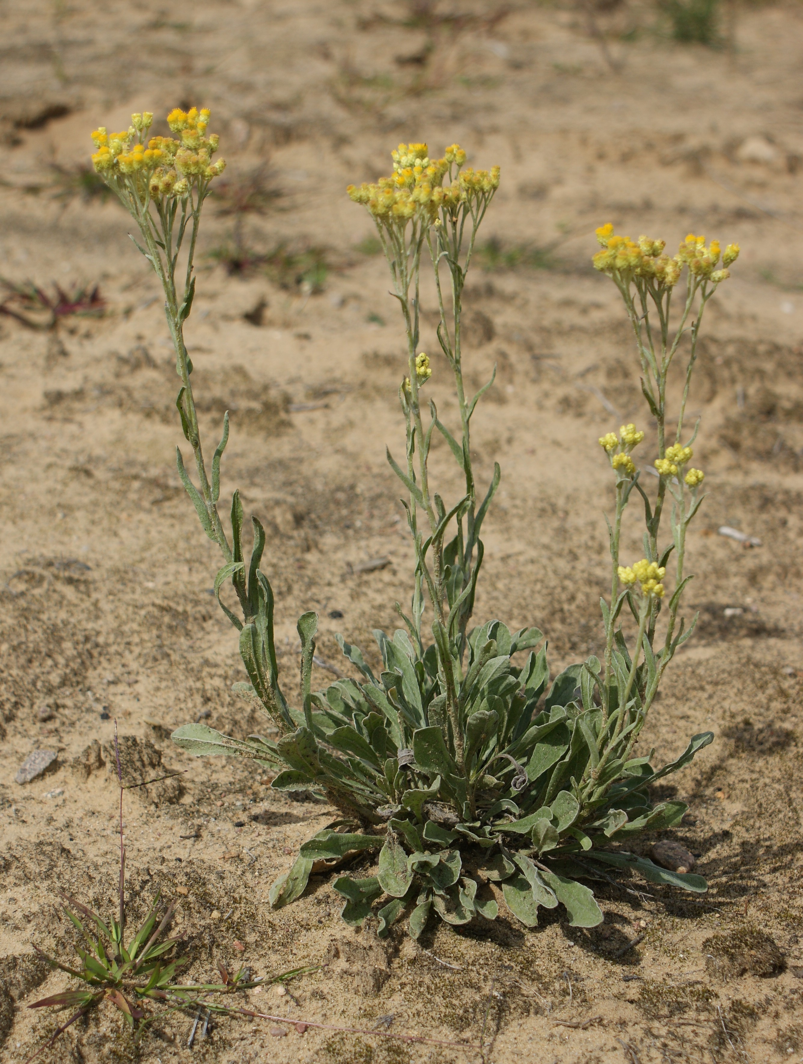 Helichrysum arenarium